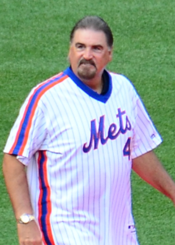 Randy Niemann, member of the 1986 New York Mets, May 28, 2016.